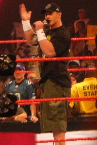 John Cena at an edition of WWE RAW in Columbia, South Carolina.